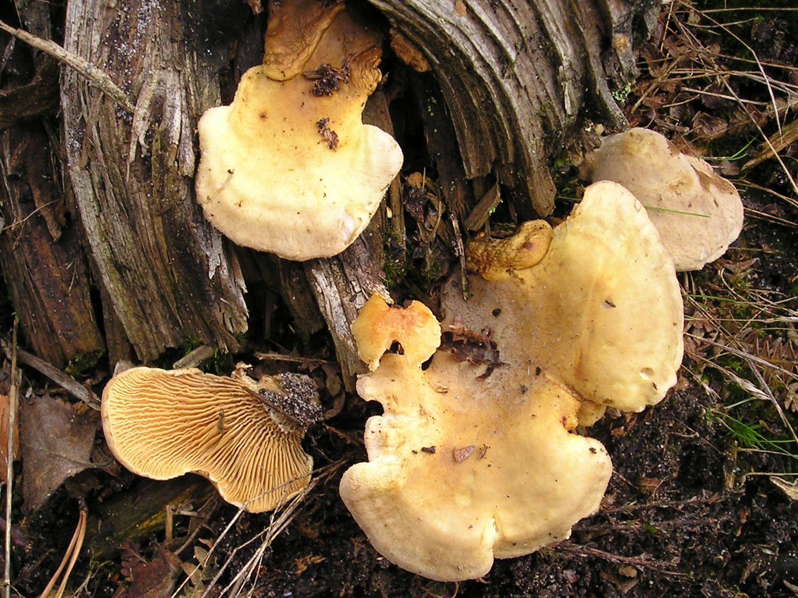 Tapinella panuoides (Paxillus panuoides) in a French wood near Rambouillet.